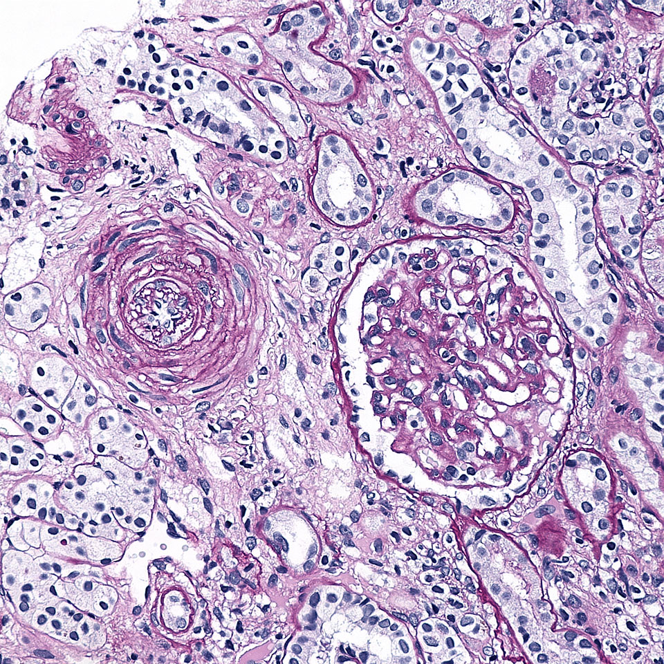 The renal blood vessels in arterial hypertension show moderate to marked thickening of their walls and narrowing of the lumina with hyaline, pink, amorphous, homogeneous material focally accumulated in the wall of small arteries and arterioles (hyaline arteriolosclerosis). There is endothelial and muscular hyperplasia, which has been described as "onion-skin" arterioles.